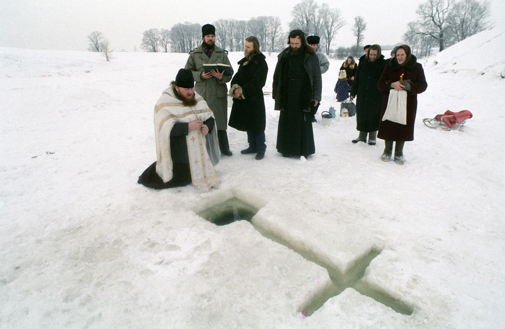 “Epiphany in Bogolyubovo village”. A priest blesses the water at an ice-caved cross on the Epiphany.